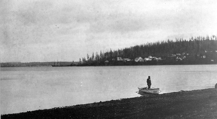 Daniel J. Harris, founder of Fairhaven in his rowboat, 1884. Behind him in the distance is the village of Unionville on Sehome Hill.